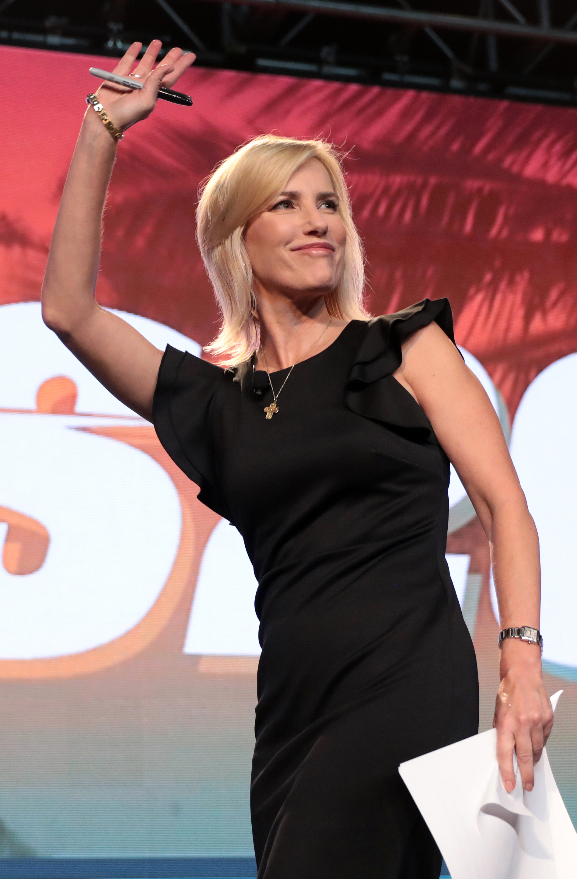 Laura Ingraham speaking at an event in West Palm Beach, Florida.